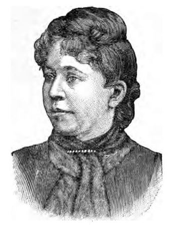 Mrs. C. C. Stumm, (née T. Elizabeth Penman) African-American journalist